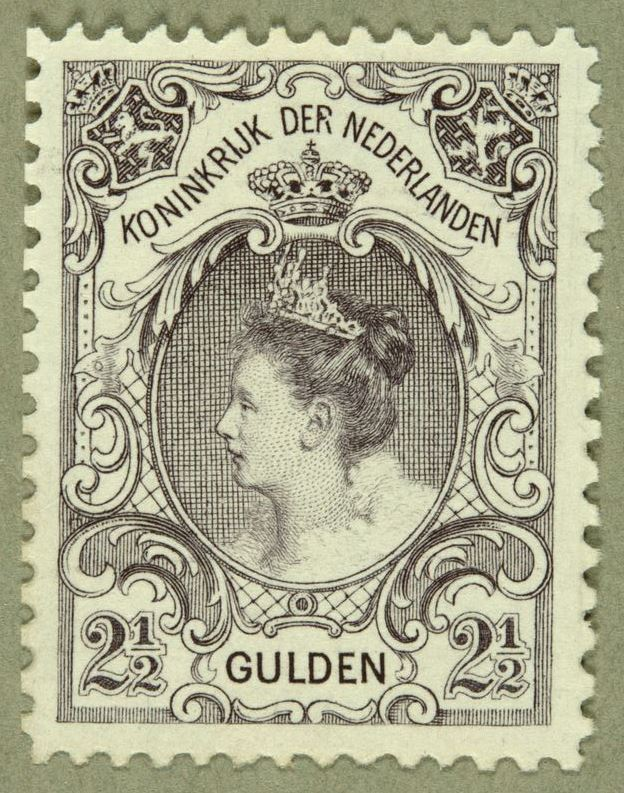 Postzegel Nederland 1899 Koningin Wilhelmina (hoge waarden), 2½ gulden violet. Ontwerper: Rudolf Stang, Joseph Vürtheim. Fotograaf: Adolphe Zimmermans. Graveur: Willem Steelink. Drukker: Joh. Enschedé en Zonen. NVPH-78. Collectie Museum voor Communicatie Den Haag.